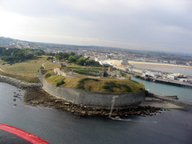 Nothe Fort, Weymouth A view of the Nothe Fort taken from the Coastguard helicopter during a training flight. The fort was commissioned in 1872 - for more information look at this